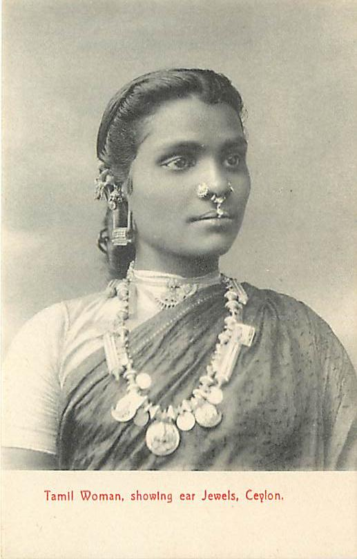 Portrait of a Tamil woman in Ceylon wearing various jewellery